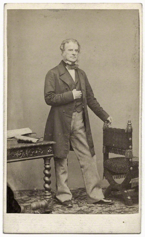 Portait of John Wilson-Patten, 1st Baron Winmarleigh